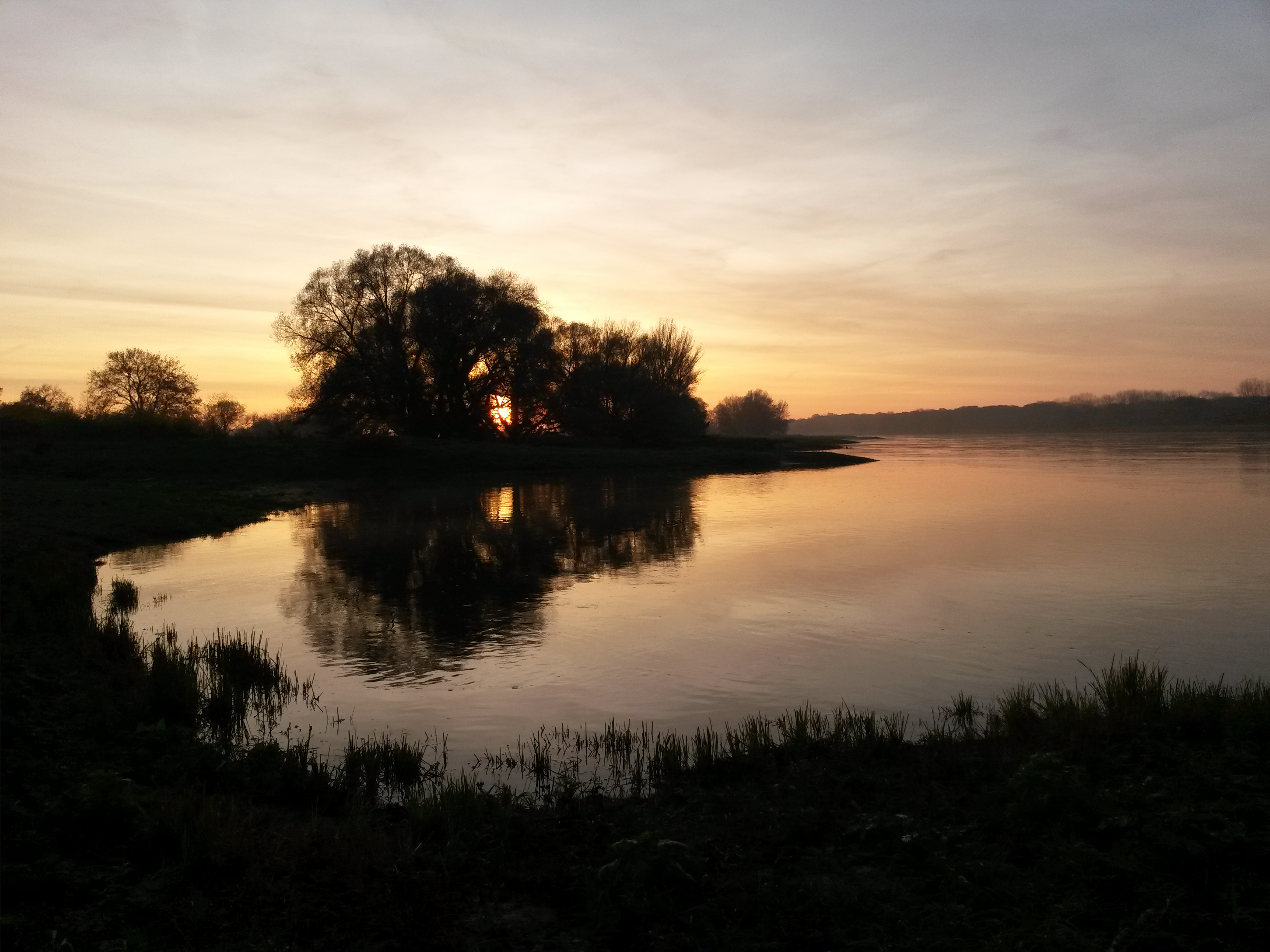 Twilight at the Elbe near Magdeburg/Hohenwarthe in the Middle Elbe Biosphere Reserve, Saxony-Anhalt (Germany)